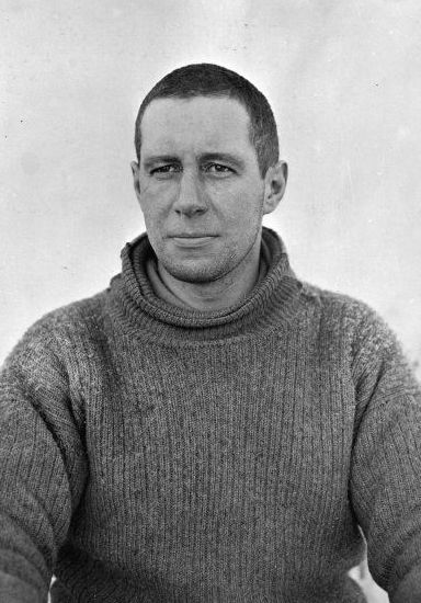 Captain Lawrence Edward Grace Oates during the British Antarctic Expedition of 1911-1913, ca 1911 Photographer: Herbert Ponting Reference Number: PA1-f-067-069-1 Silver gelatin print Photographic Archive, Alexander Turnbull Library Find out more on our Manuscripts + Pictorial website